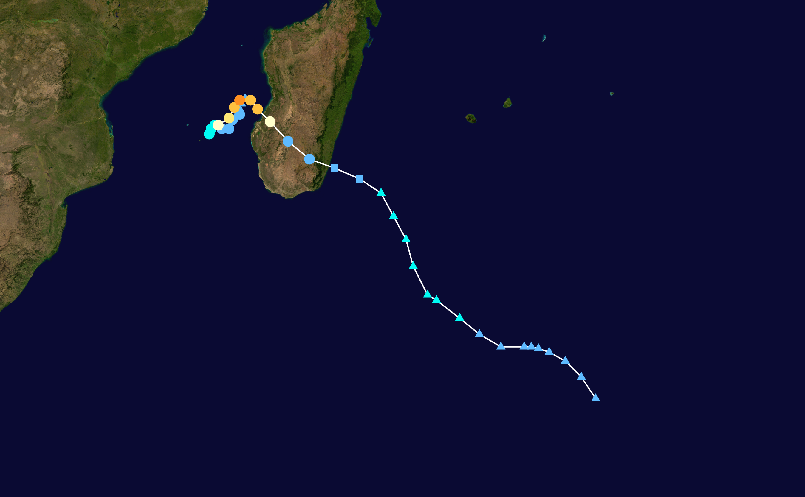 Track map of Intense Tropical Cyclone Fanele of the 2008-09 South West Indian Ocean cyclone season. The points show the location of the storm at 6-hour intervals. The colour represents the storm's maximum sustained wind speeds as classified in the Saffir–Simpson scale (see below), and the shape of the data points represent the nature of the storm, according to the legend below. Saffir–Simpson scale Tropical depression≤38 mph≤62 km/h Category 3111–129 mph178–208 km/h Tropical storm39–73 mph63–118 km/h Category 4130–156 mph209–251 km/h Category 174–95 mph119–153 km/h Category 5≥157 mph≥252 km/h Category 296–110 mph154–177 km/h Unknown Storm type Tropical cyclone Subtropical cyclone Extratropical cyclone / Remnant low / Tropical disturbance / Monsoon depression